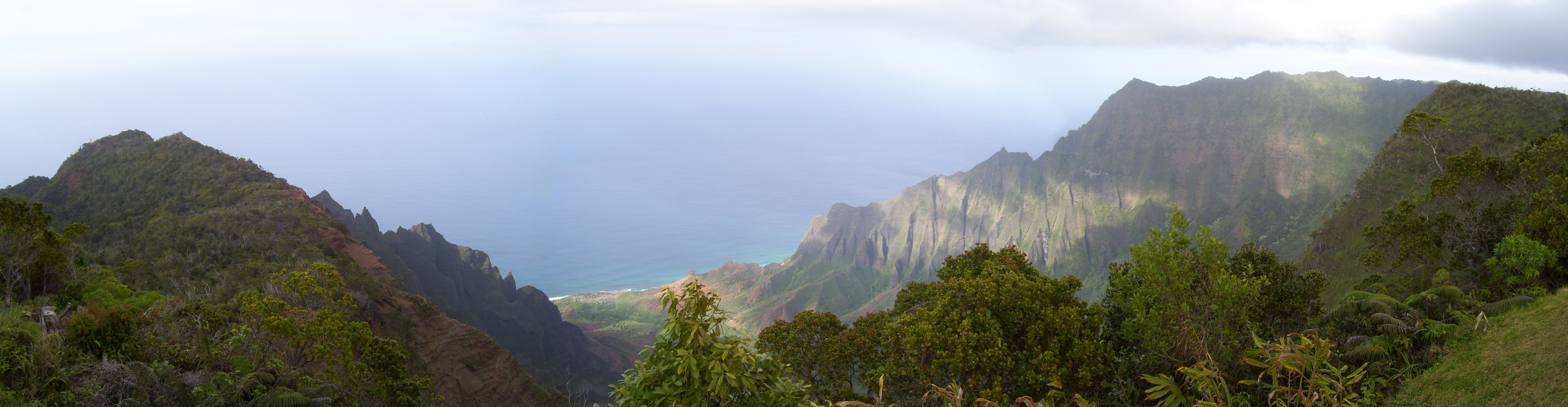 Panoramic view of the Kalalau Valley from Kalalau Lookout, Kauai, HI.